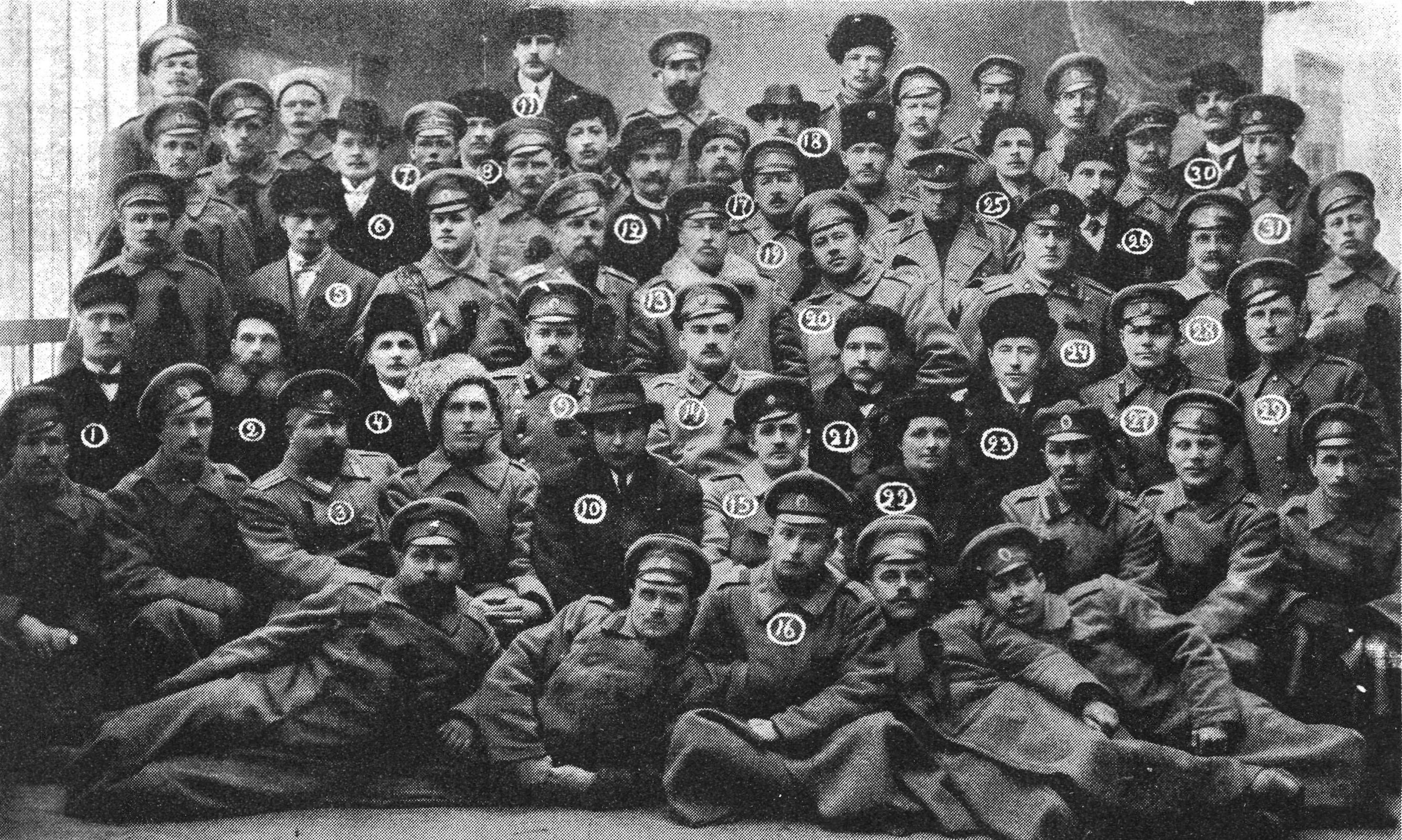 The revolutionary committee in Tampere, Finland, in March 1917. Text in Finlands frihetskrig 1918: On the above picture, we have indicated the following people with numbers: 1. J. Ahonen, porter. 2. Aug. Kukkola, gatekeeper, managing director for the fever-hospital during the rebellion. 3. Petersen, colonel. 4. K. M. Evä, publisher of Kansan lehti, Communist in Petersburg. 5. Aug. Koskinen. Worker. † 6. Aug. Lindell, present editor of Kansan lehti. 7. F. Gutarev, non-commissioned officer. 8. Rissanen, employed at Kansan lehti during the rebellion. 9. Svetsjnikov, colonel, commander-in-chief. 10. Pekka Lönngren, chief of the police and militia. 11. Lauri Nurmi-Aho, county governor in the province of Hämeenlinna during the rebellion. 12. Mauri Lehtoranta, present Communist leader in Tampere. 13. A. Larionov, colonel, civil servant. 14. Peterson, ensign. 15. Muhanov, lieutnant. 16. I. Smirnov, underofficer. 17. J. A. Tunturi (née Flinckman). 18. A. Vuolle. 19. Sabotin, Merchant, bourgeois-minded. 20. P. Minajev, chairman of the soldiers committee. 21. Emil Murto, member of the diet. 22. Emmi Murto, the former's wife. 23. E. Lammi, housepainter, employed at Kansan lehti during the rebellion. 24. Politovskij, chief of the intelligence department. 25. Nurmi. 26. Anton Huotari, member of the diet, editor of Kansan lehti. 27. —?— official at the intelligence department. 28. Vanag, ensign. † 29. Tuminski, soldier, office clerk. 30. Matti Vuolukka, combat medic chief, present Communist leader. 31. Saiontsjkovskij, ensign, Pole.